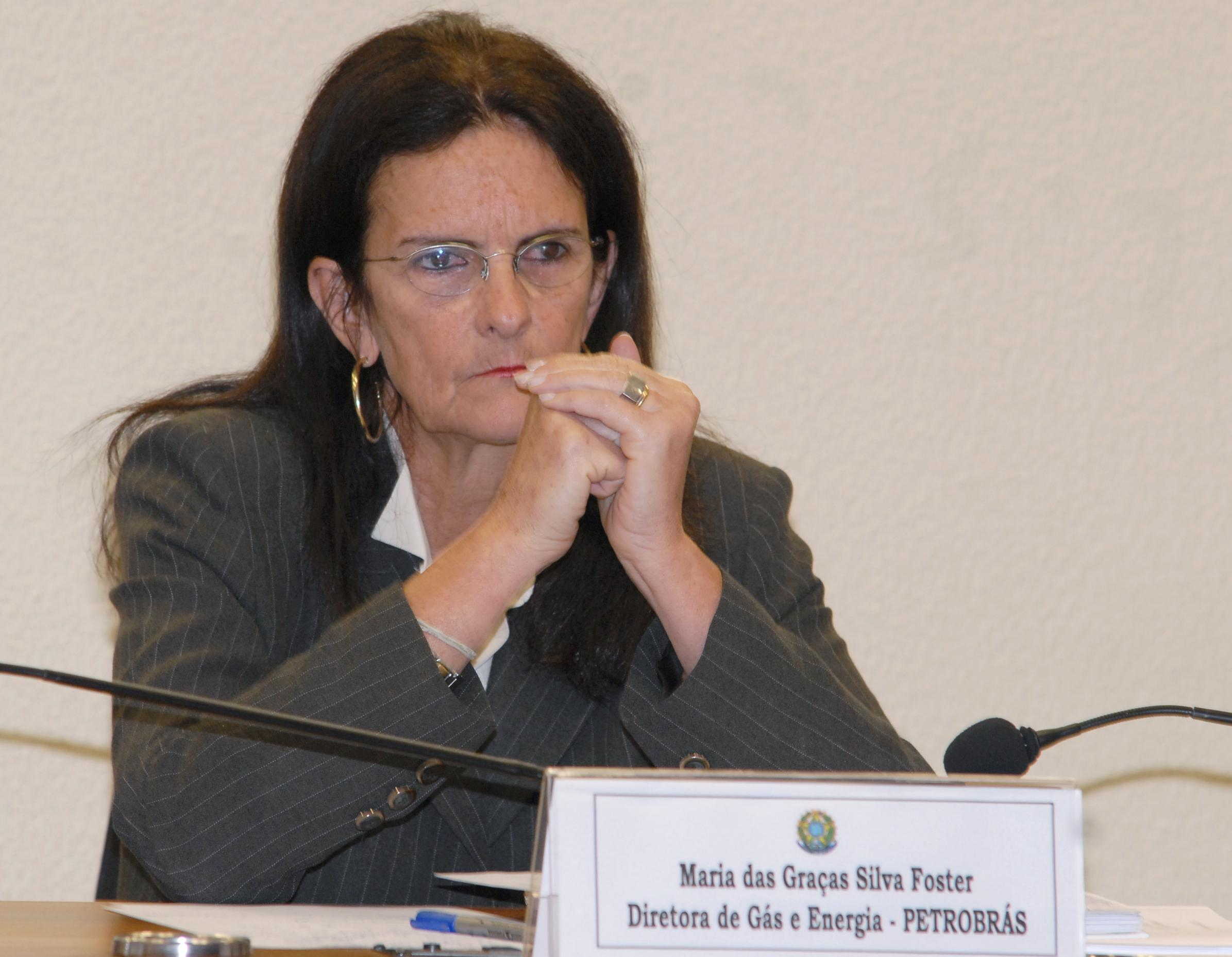 Maria das Graças Foster in 2007, when she was Director for Gas and Energy at Petrobras, in a meeting with the Infrastructure Services Committee in which they discussed an agreement between Brazil and Bolivia regarding the production and supplying of Bolivian gas to Brazil.